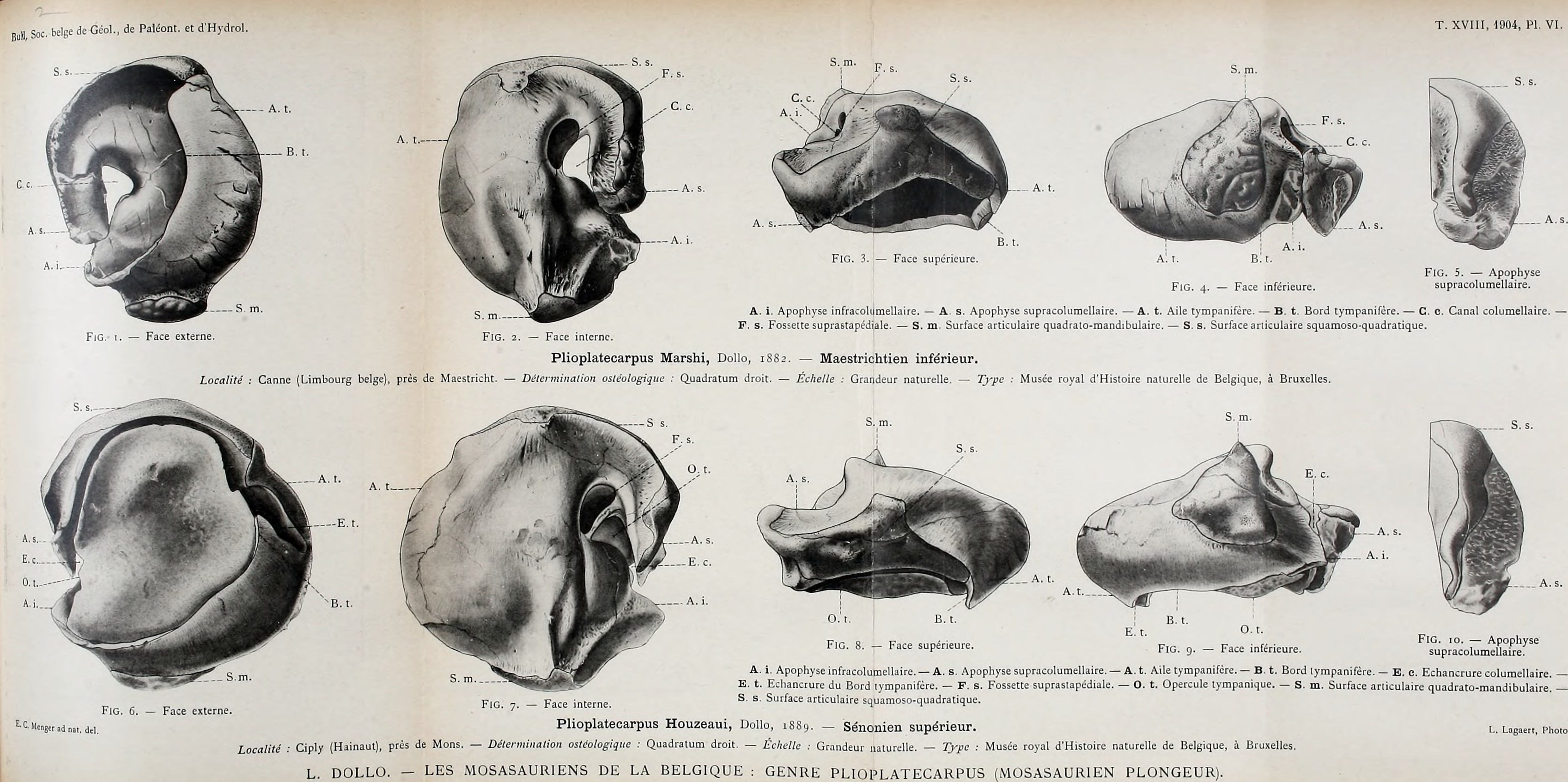 Title: Bulletin de la Société belge de géologie, de paléontologie et d'hydrologie Year: 1887 (1880s) Authors: Société belge de géologie, de paléontologie et d'hydrologie Subjects: Geology; Paleontology Publisher: Bruxelles : The society Text Appearing Before Image: ' Text Appearing After Image: '